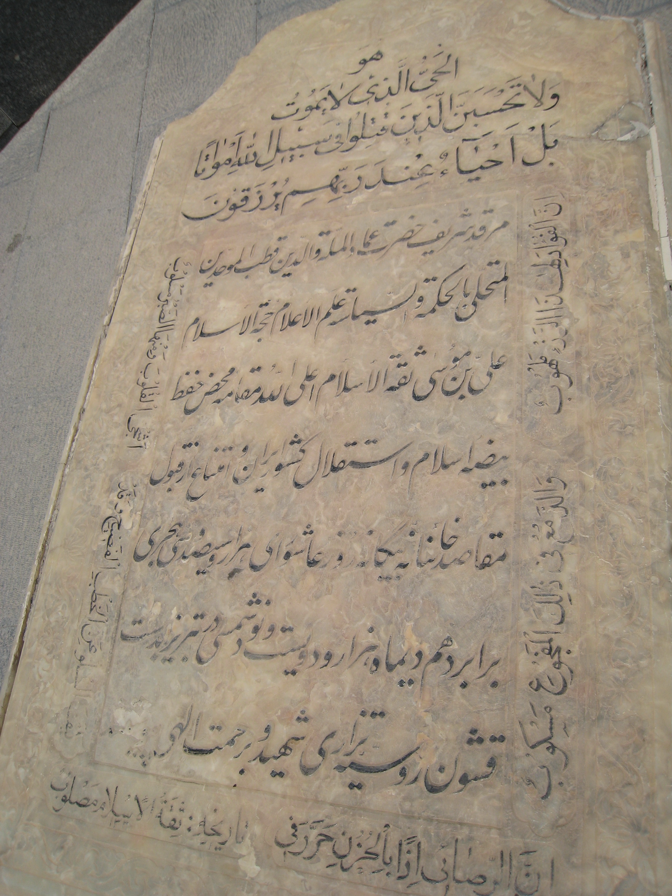 Seqat-ol-Eslam Tabrizi's tomb , outside the Maqbaratoshoara building , Tabriz.